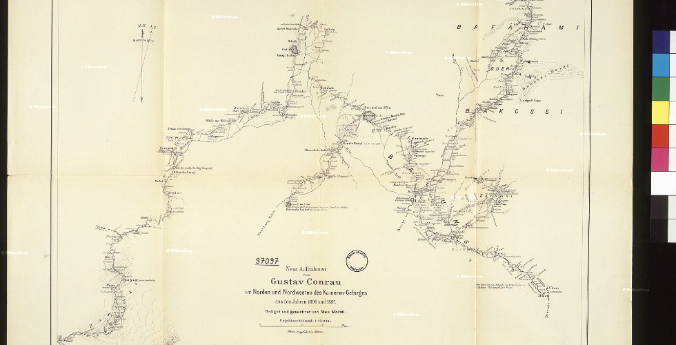 New recordings by Gustav Conrau in the north and northwestern parts of the Cameroon Mountains in the years 1896 and 1897